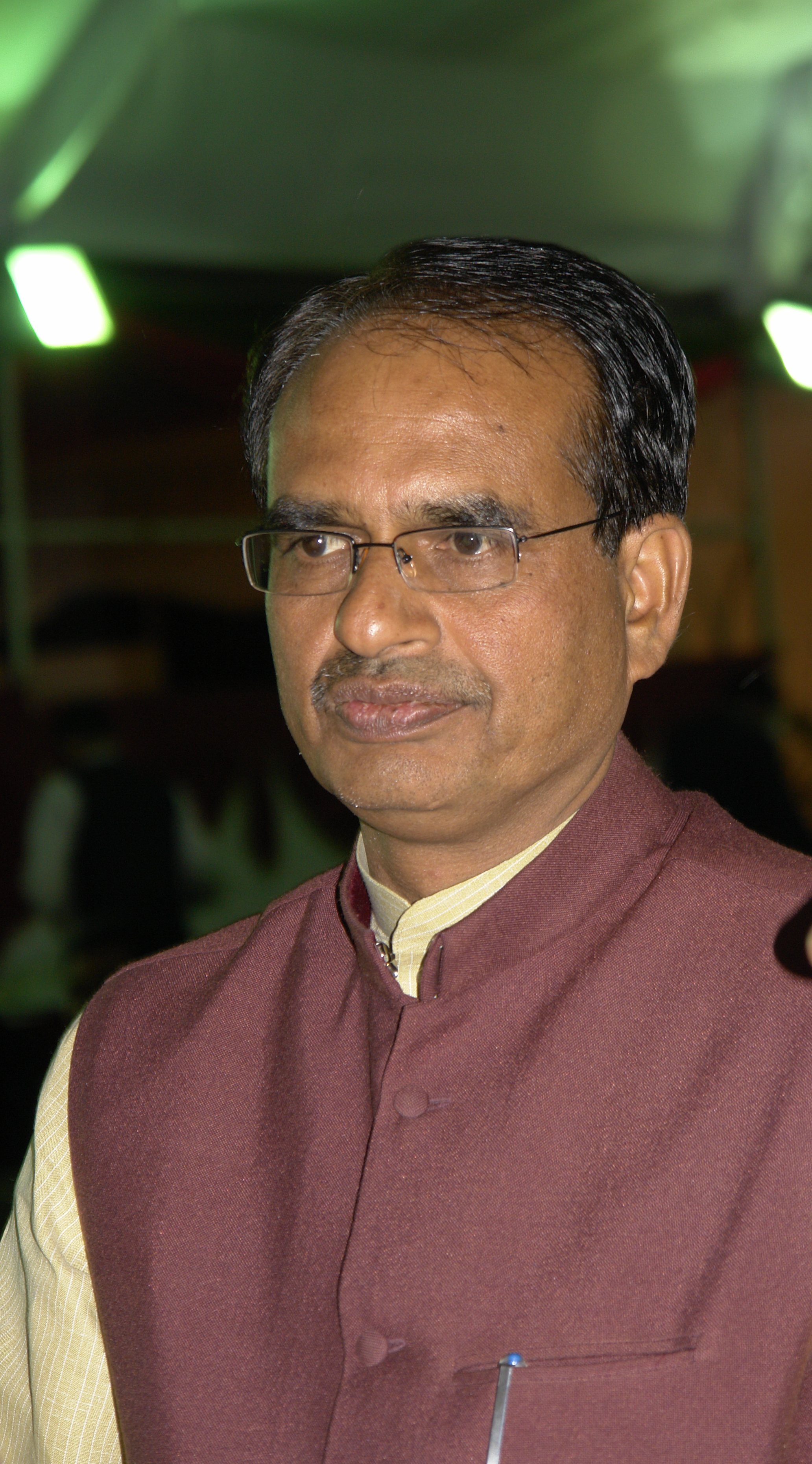 Shivraj Singh Chouhan, Chief Minister of Madhya Pradesh, India.